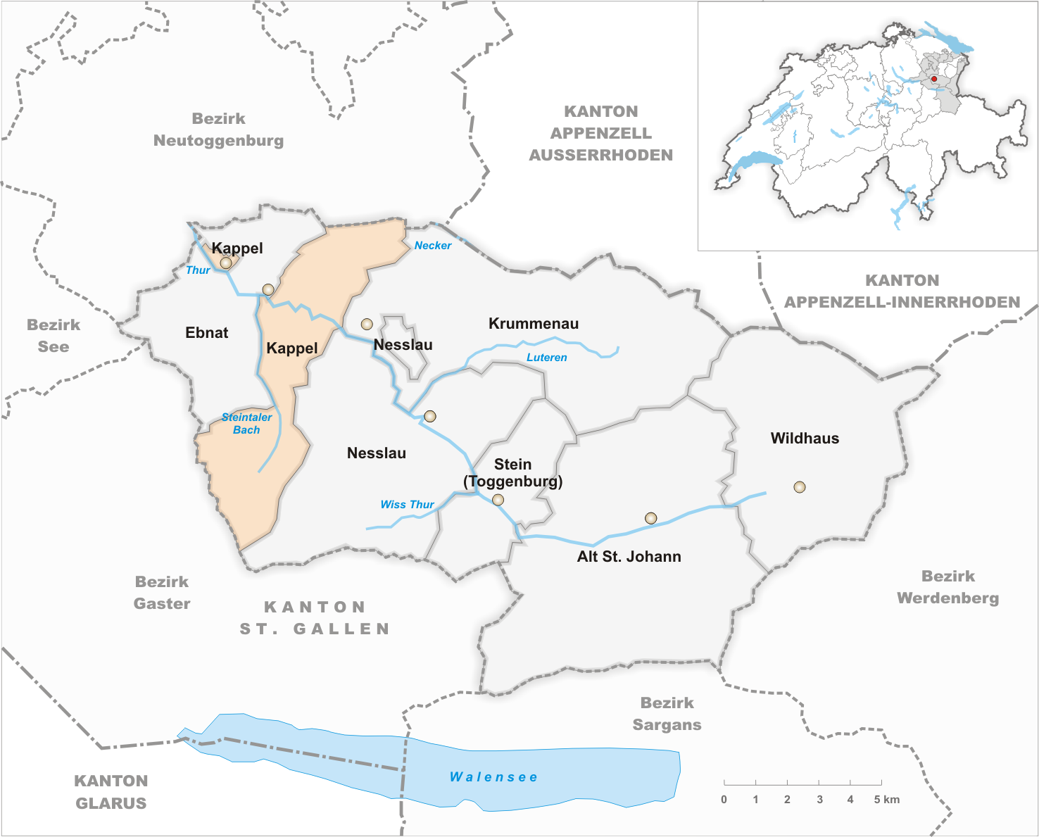 Municipality Kappel Artist: Tschubby